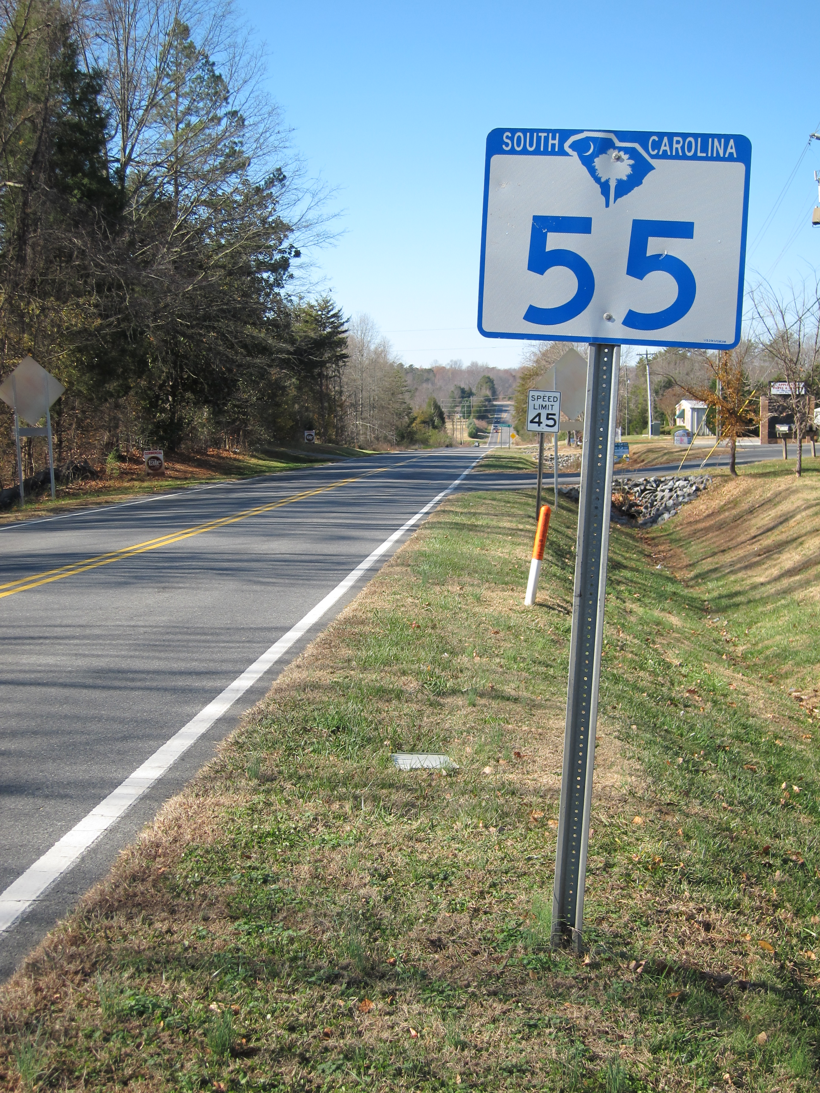 First sign of SC 55 westbound towards Clover, South Carolina.